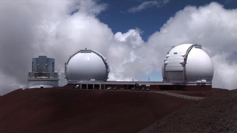 The twin-telescope W. M. Keck Observatory, with the Subaru Telescope in the background.